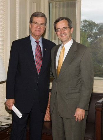 Senator Trent Lott with Judge Leslie Southwick after his confirmation